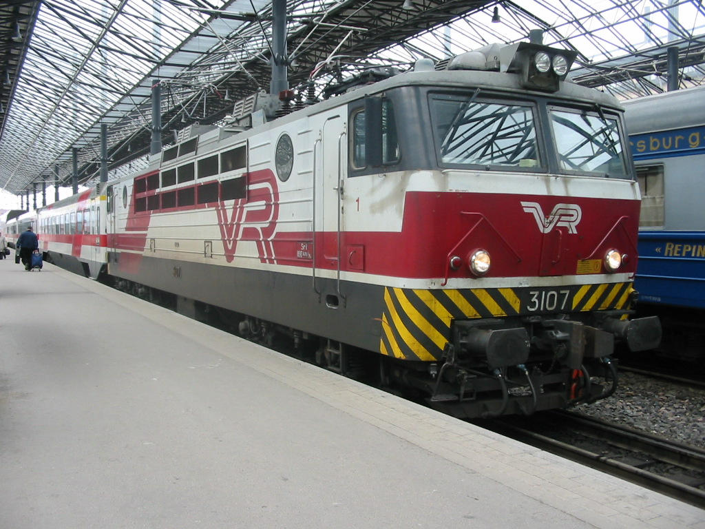 Sr1 electric locomotive (no. 3107) at Helsinki central railway station, Finland.